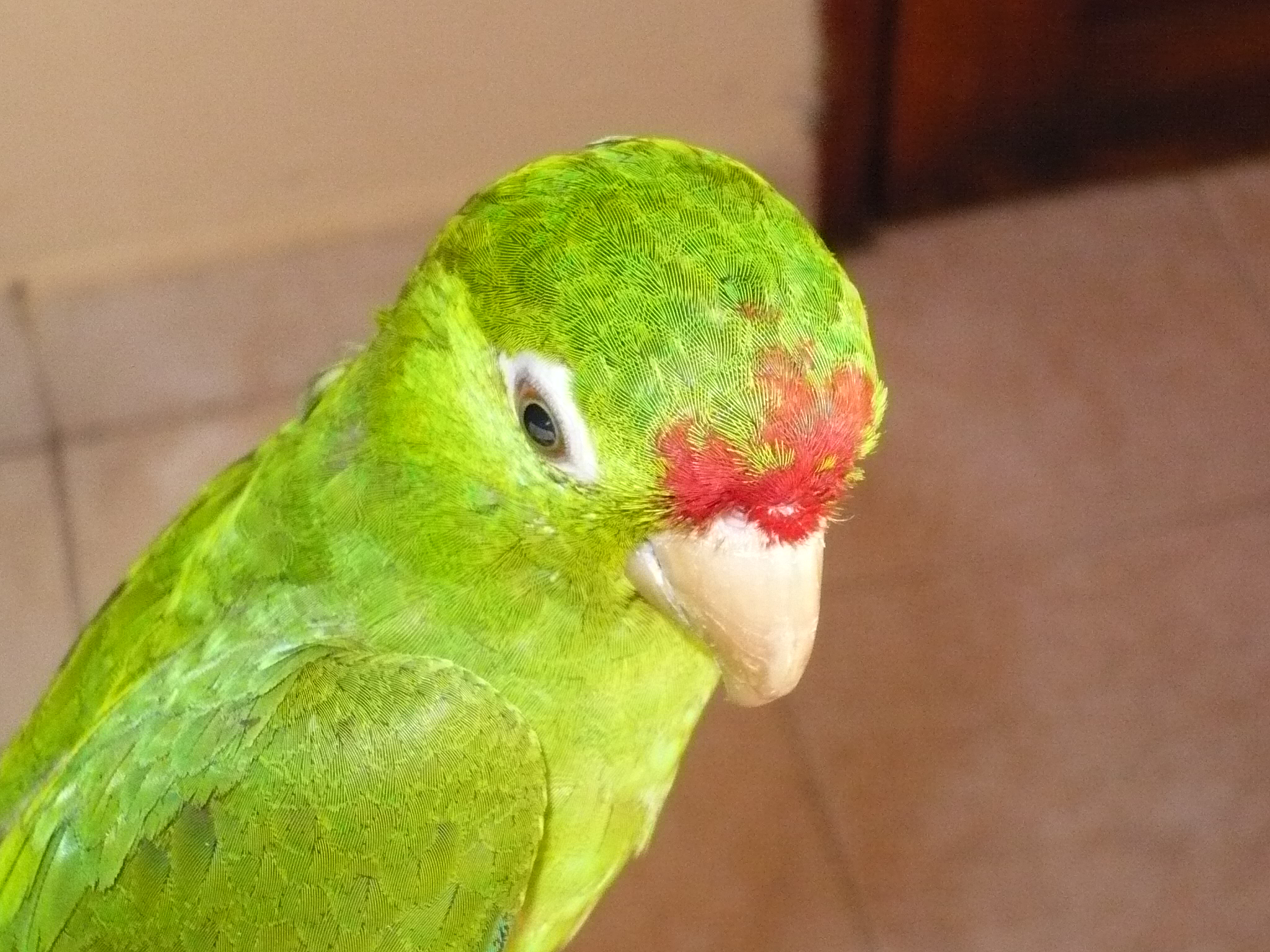 A juvenile Crimson-fronted Parakeet, approximately four months of age, City of Panamà.